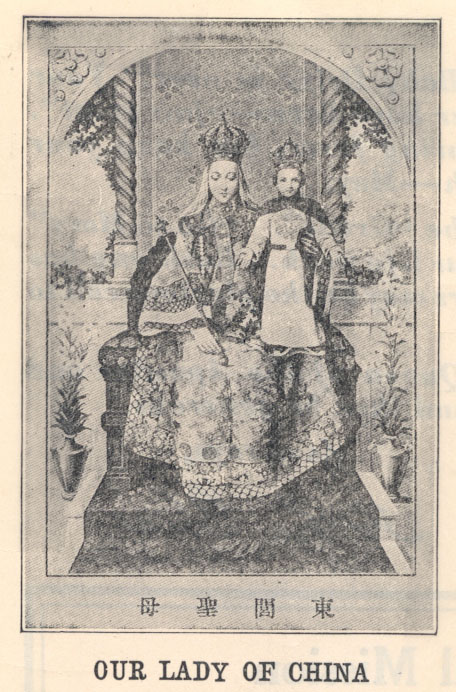 An apparition of the Blessed Virgin Mary in Donglu, China, first appearing in 190